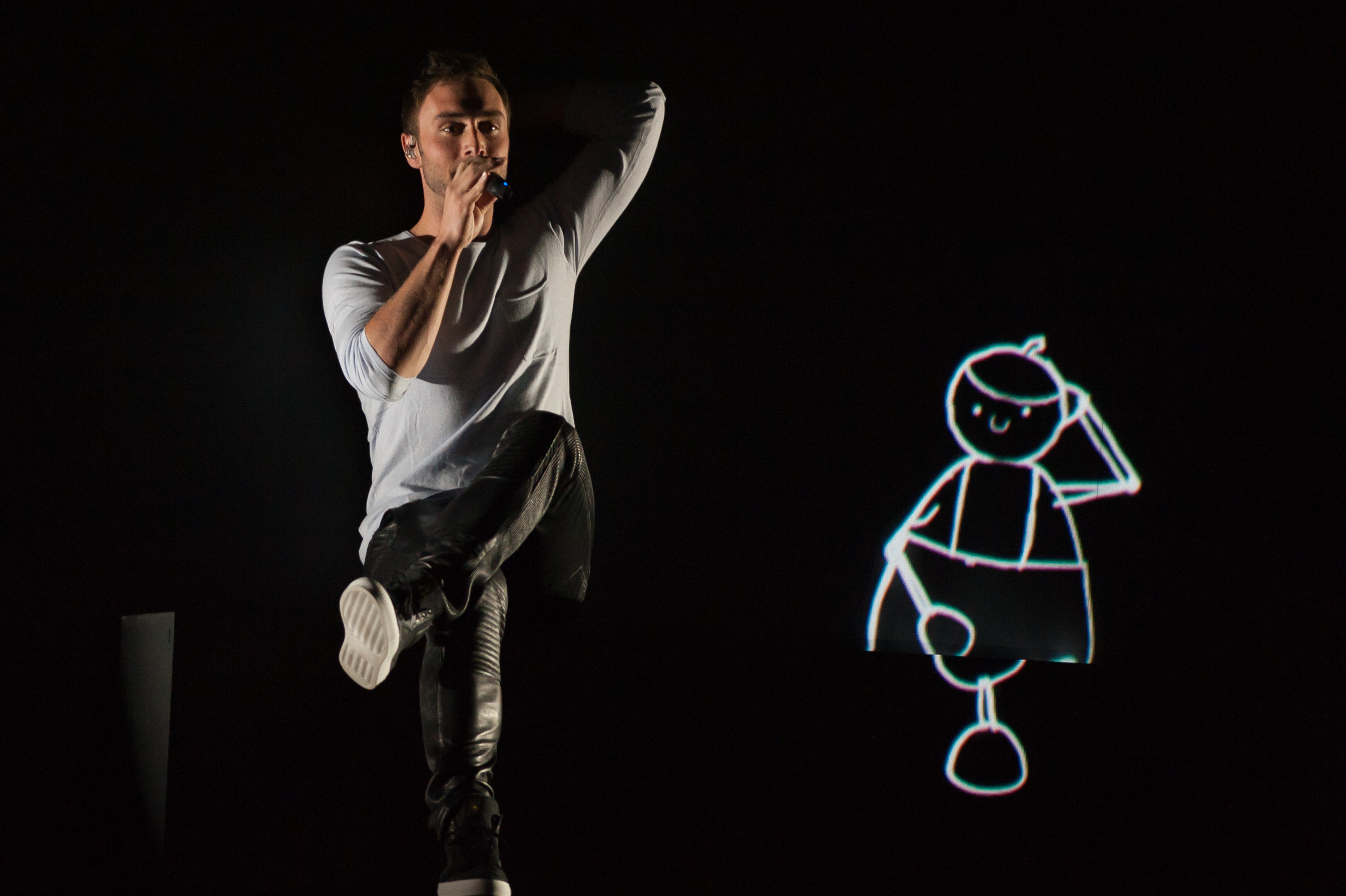 Eurovision Song Contest Vienna 2015: Måns Zelmerlöw